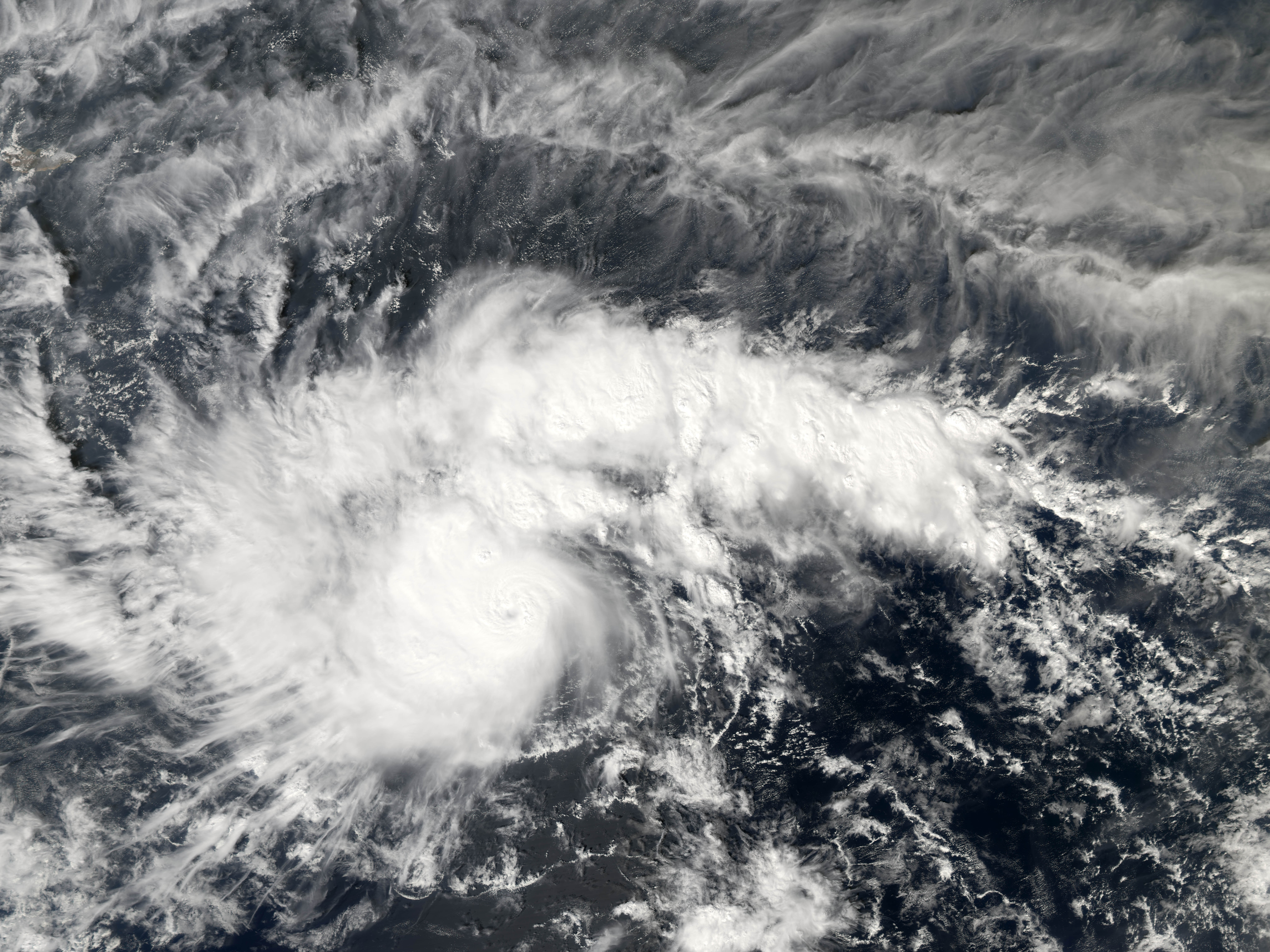 The MODIS instrument onboard NASA's Aqua satellite captured this true-color image of Tropical Cyclone Agni (05A) at 09:15 UTC on November 30, 2004 in the Indian Ocean.